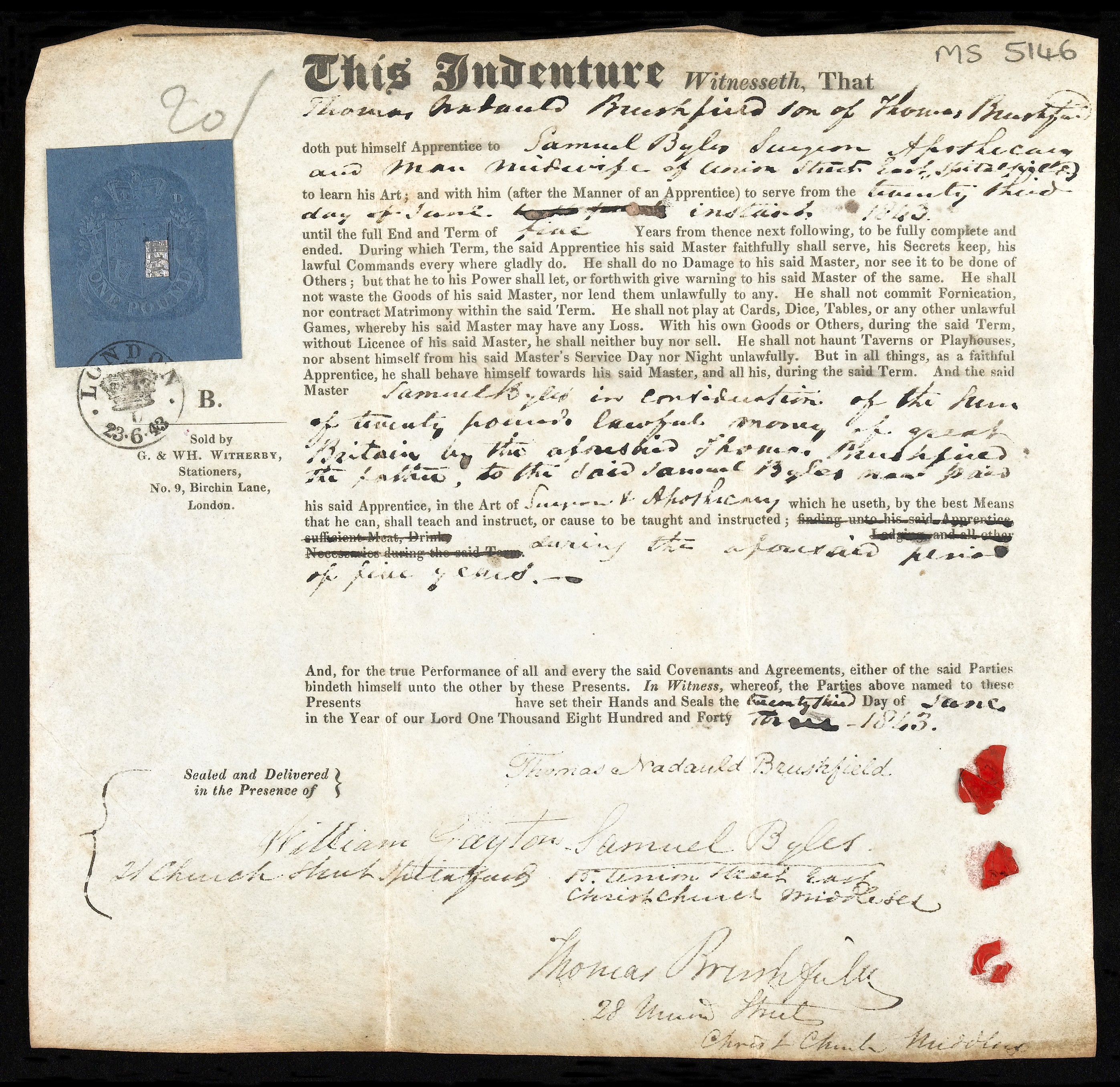 Apprenticeship indenture of T N Brushfield. Archives & Manuscripts Keywords: Indenture; Apprentice